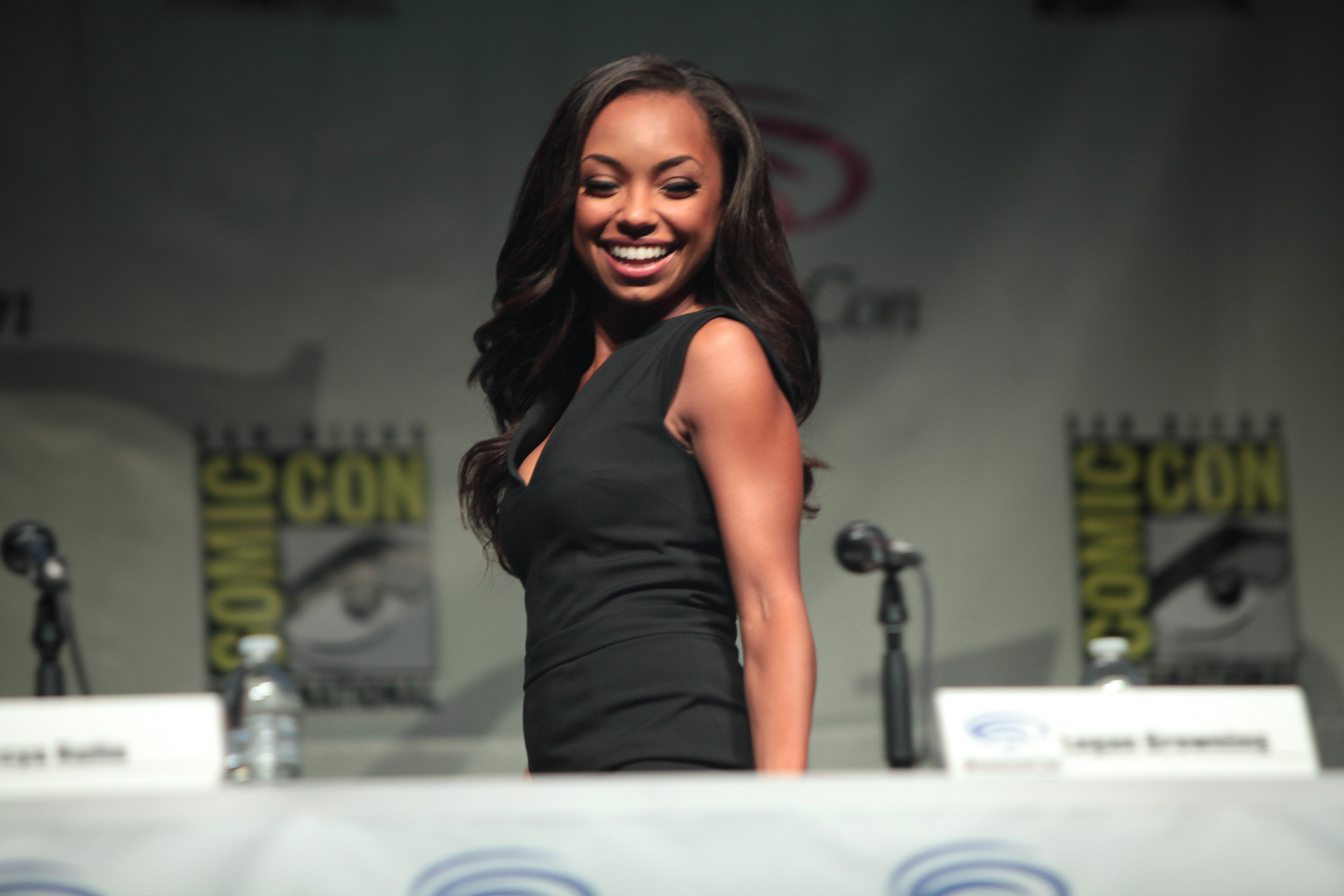 Logan Browning speaking at the 2015 Wondercon, for "Powers", at the Anaheim Convention Center in Anaheim, California.